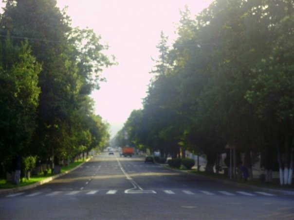 Boulevard Azatamartikneri (Liberators). View from the monument of Yeghishe Charents.